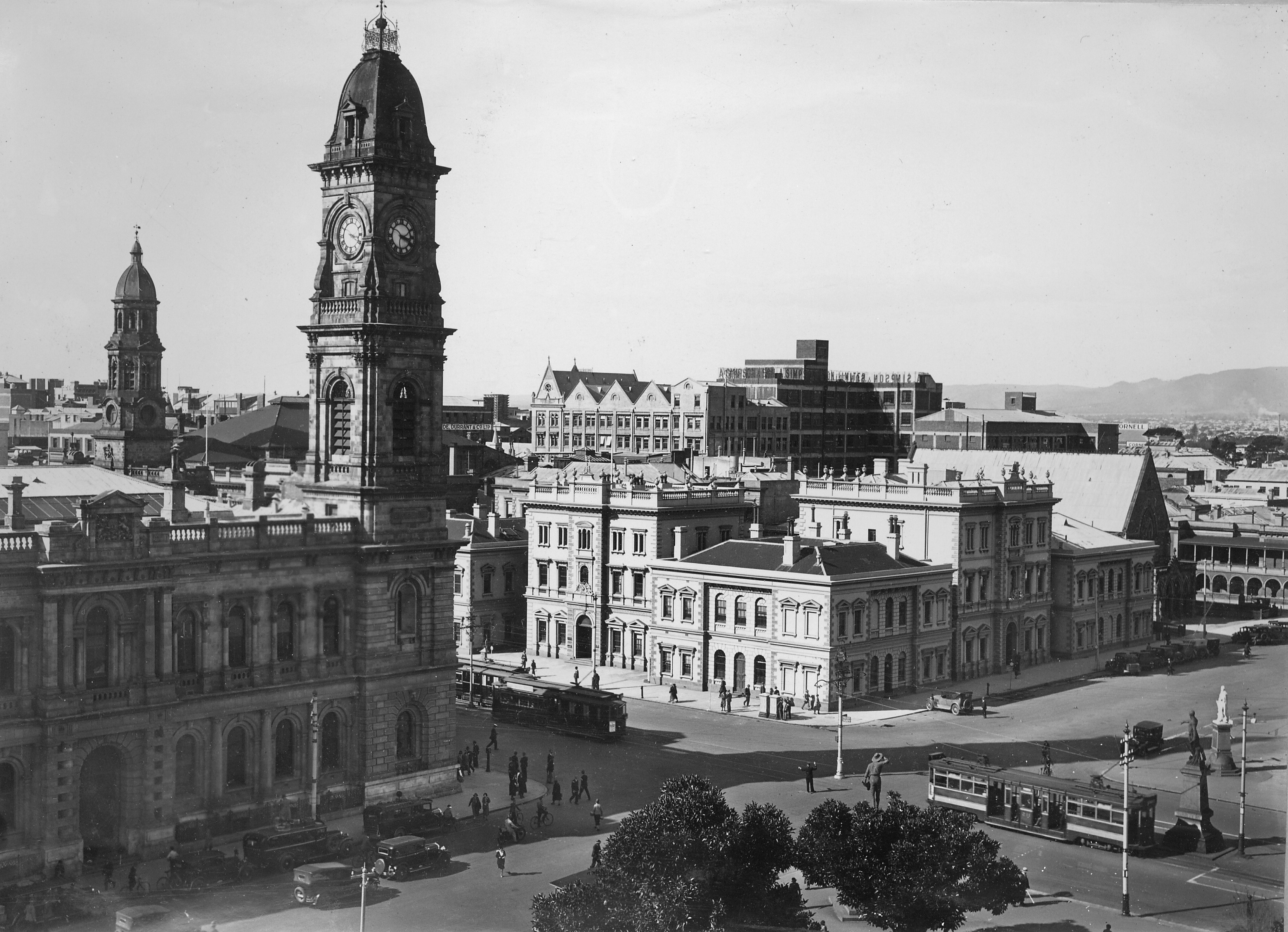 Sourced from the state archives of South Australia, in the State Library of South Australia. The General Post Office and Clock Tower - Adelaide, 1950. The Town Hall is the lesser spire on the left of the photo. Running through Victoria Square are F type drop centre trams of the Municipal Tramways Trust.